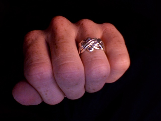 This is a six band puzzle ring. The ring can be broken into six interlocked rings, this is the solved version.